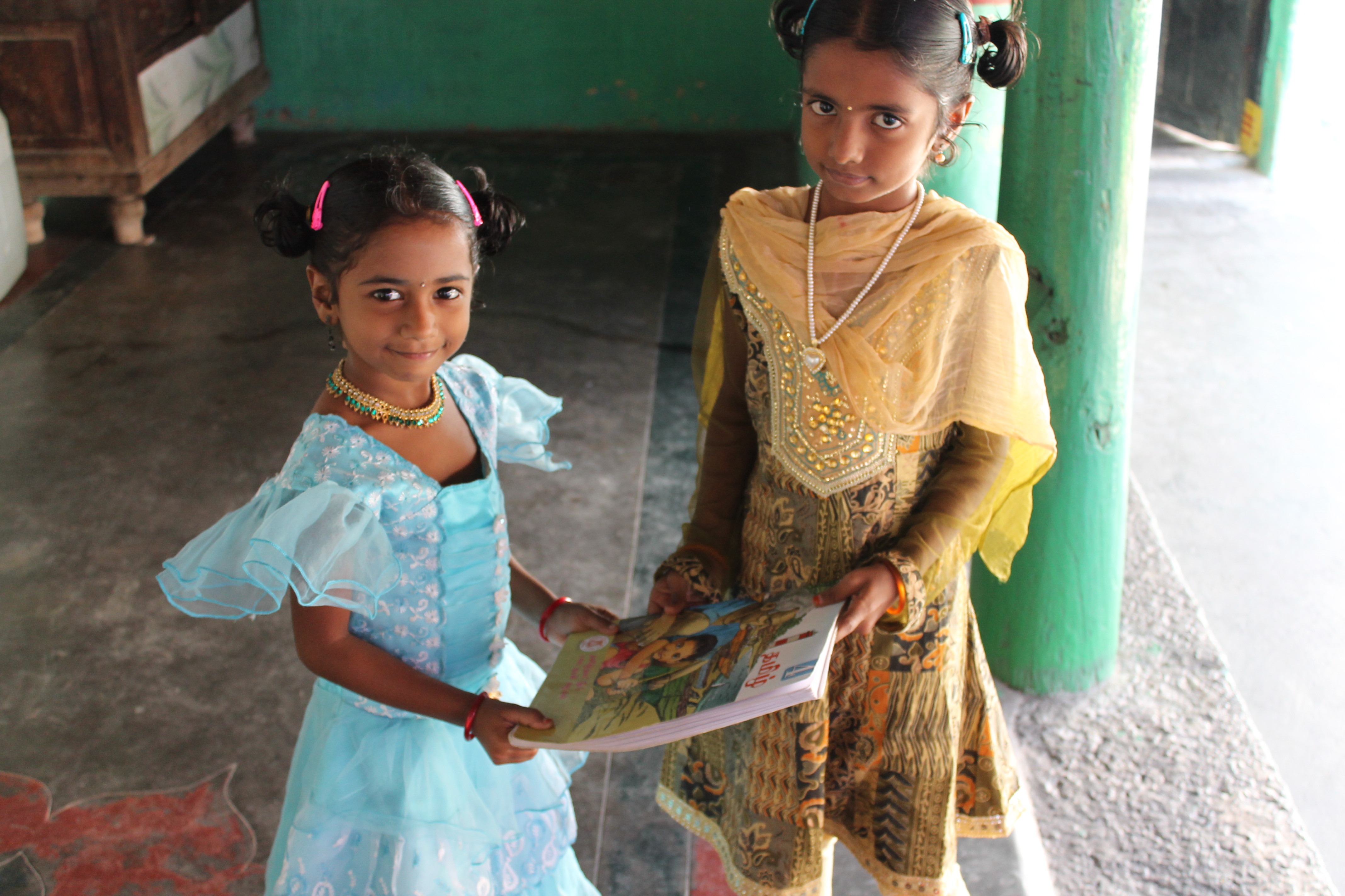 every one has right to have equal education apart from their money ,stastus etc